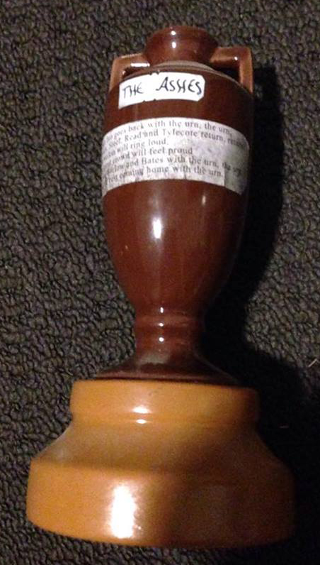 An Official Replica of the Ashes Urn (©) purchased from an official company on eBay (picture taken in 2016).